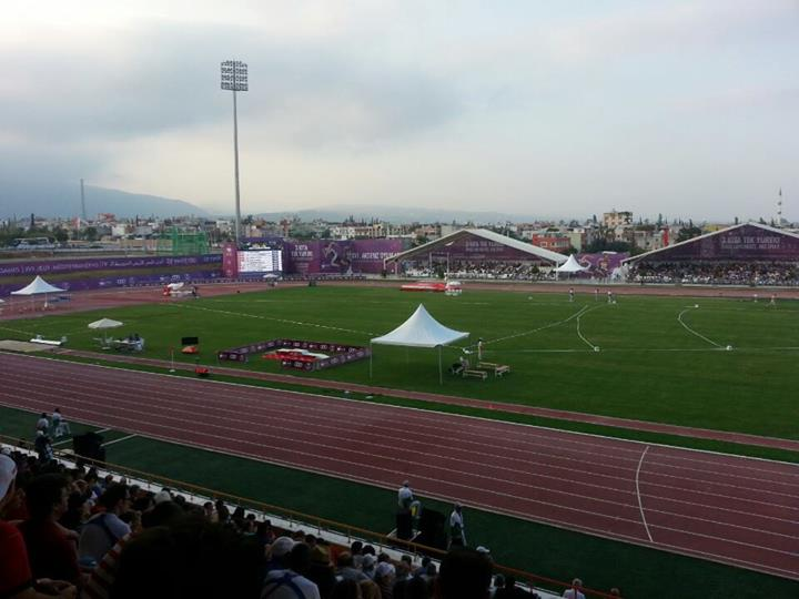 Nevin Yanıt Athletics Complex, Yenişehir, Mersin, Turkey